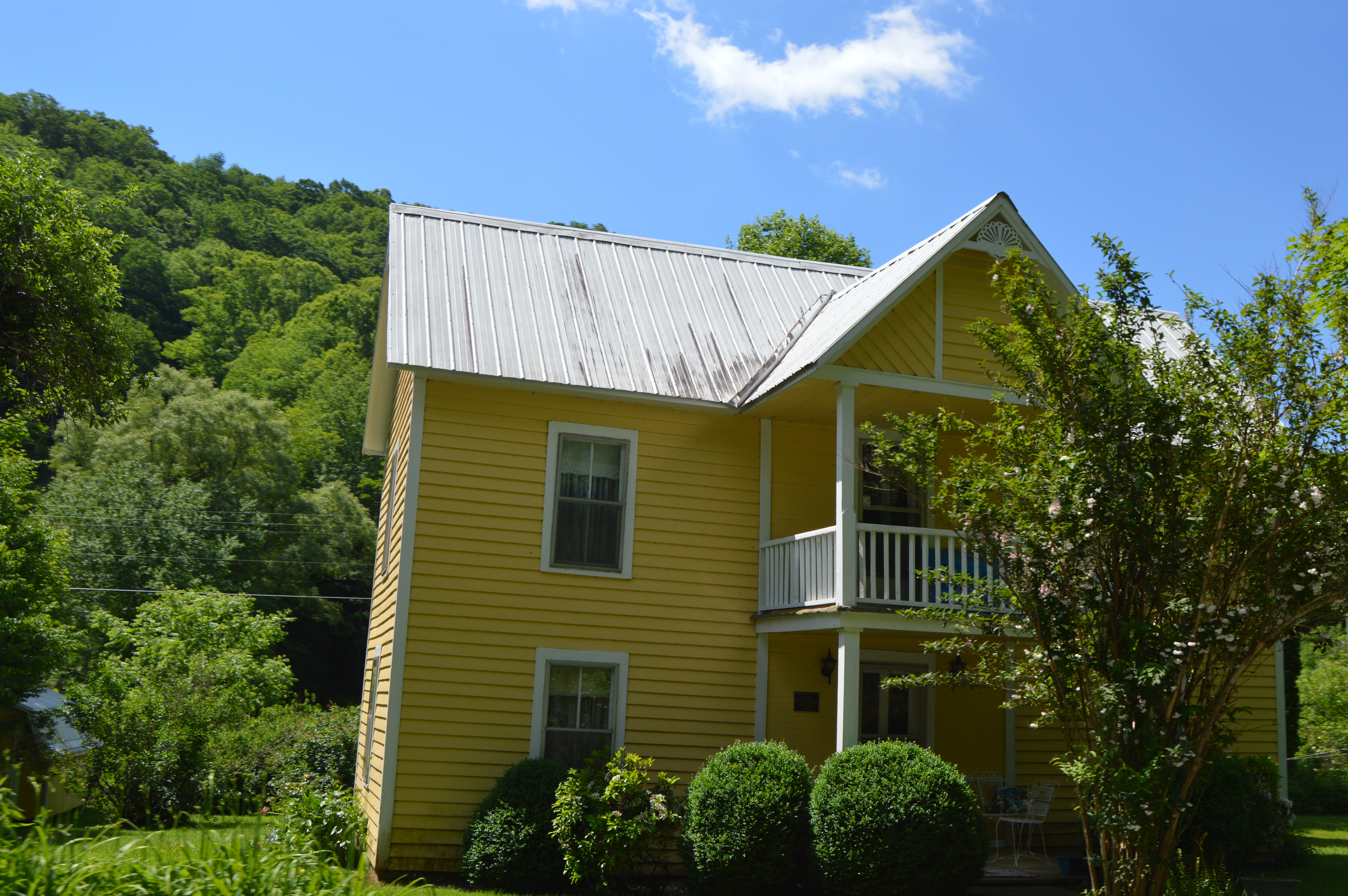 Front of the John Smith Miller House, located at 561 Chestnut Grove Road north of Boone in Watauga County, North Carolina, United States. Built in 1906, it is listed on the National Register of Historic Places.